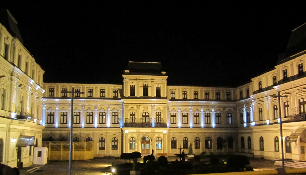 Museum of Art Collections - Bucharest RomaniaRomână: Muzeul Colectiilor de Arta - Bucuresti Romania